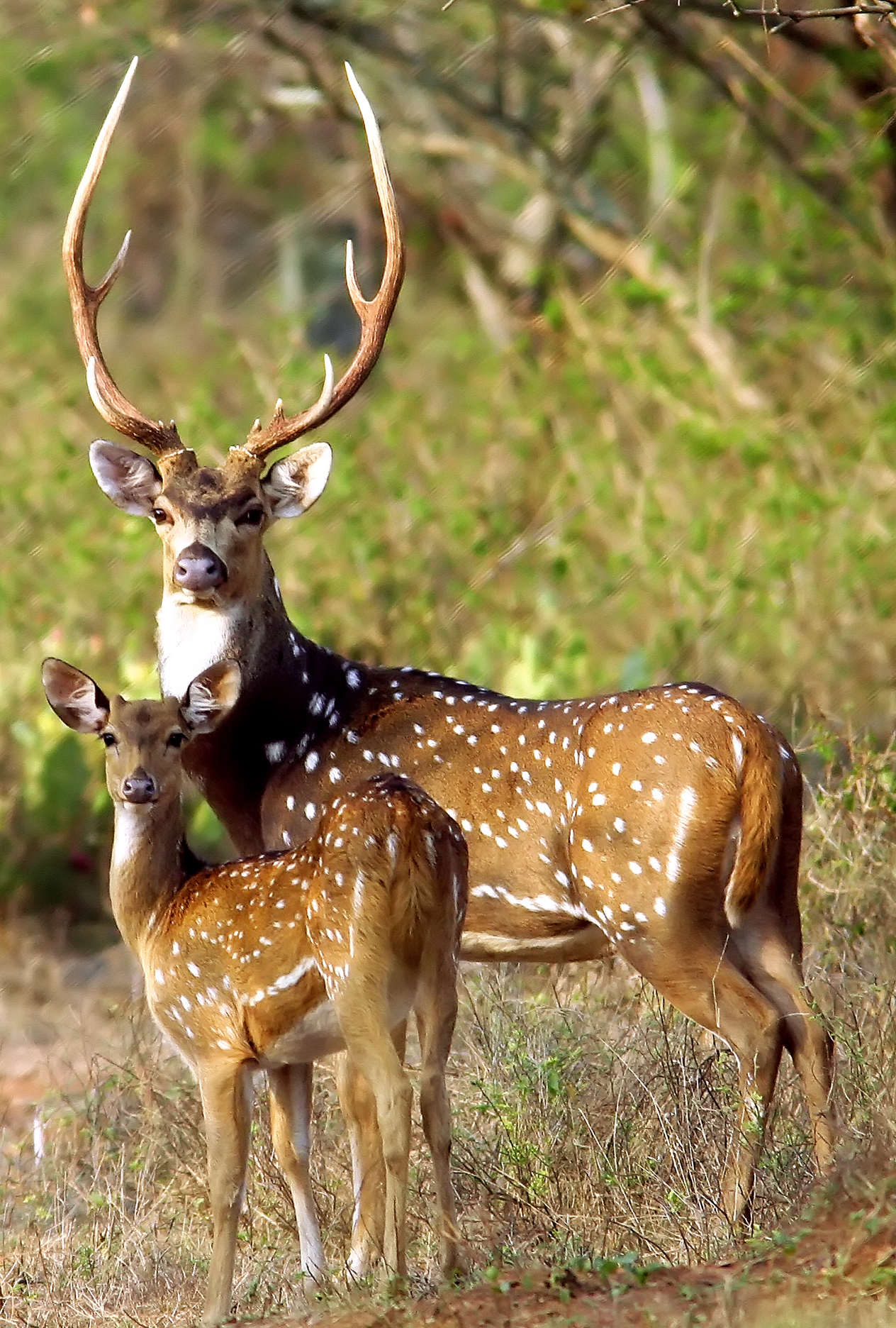 Chital or cheetal (Axis axis)